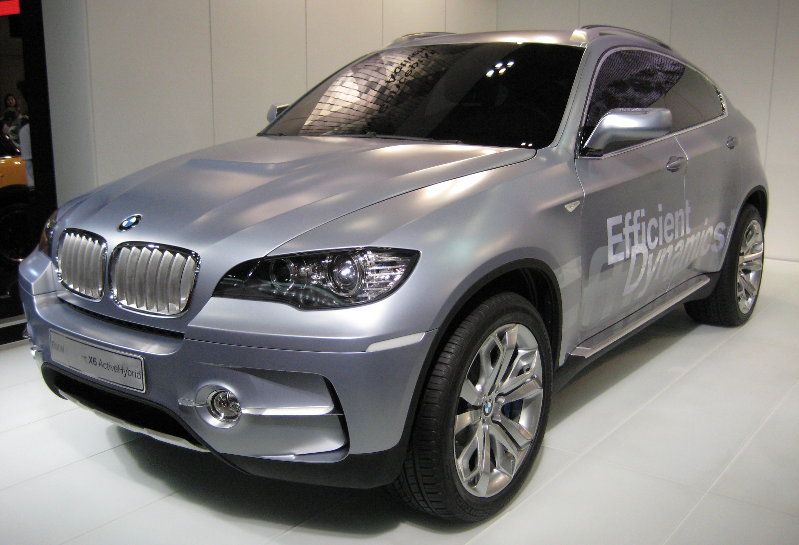 BMW Concept X6 Active Hybrid in Tokyo Motor Show 2007